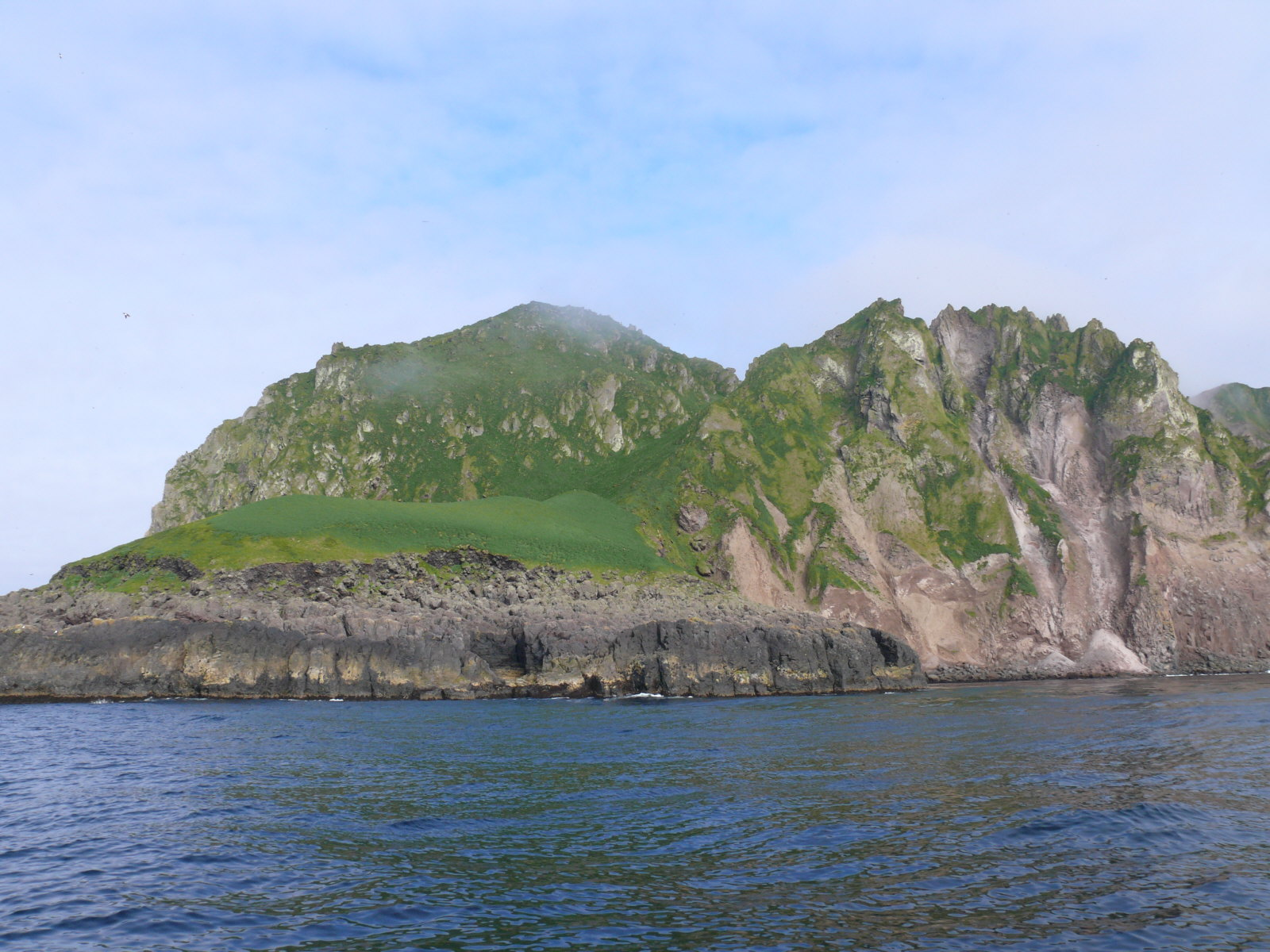 Koniuji Island, Aleutians, Alaska